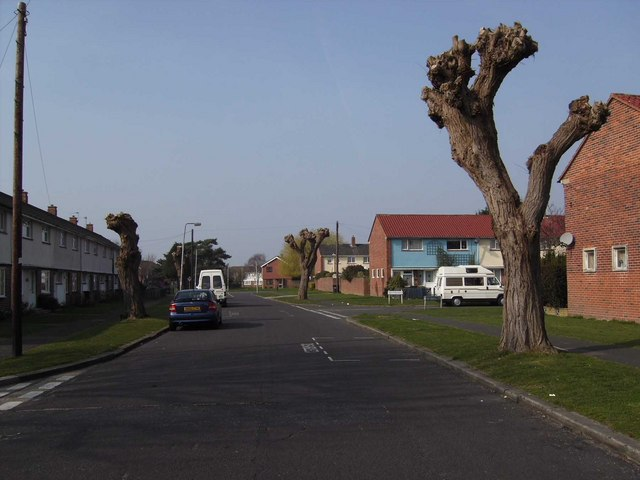 Topped trees in Brading Avenue